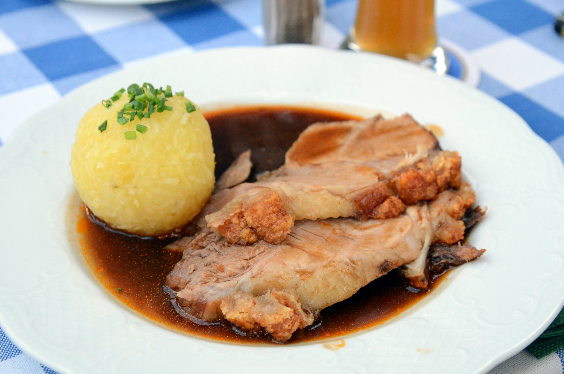 Schweinsbraten mit Kartoffelknödel (Roast pork with potato dumpling) is a typical Bavarian dish.